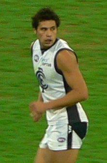 Setanta O'Hailpin. All rounder. Gaelic Hurler & Australian rules footballer. Playing for Carlton in the AFL